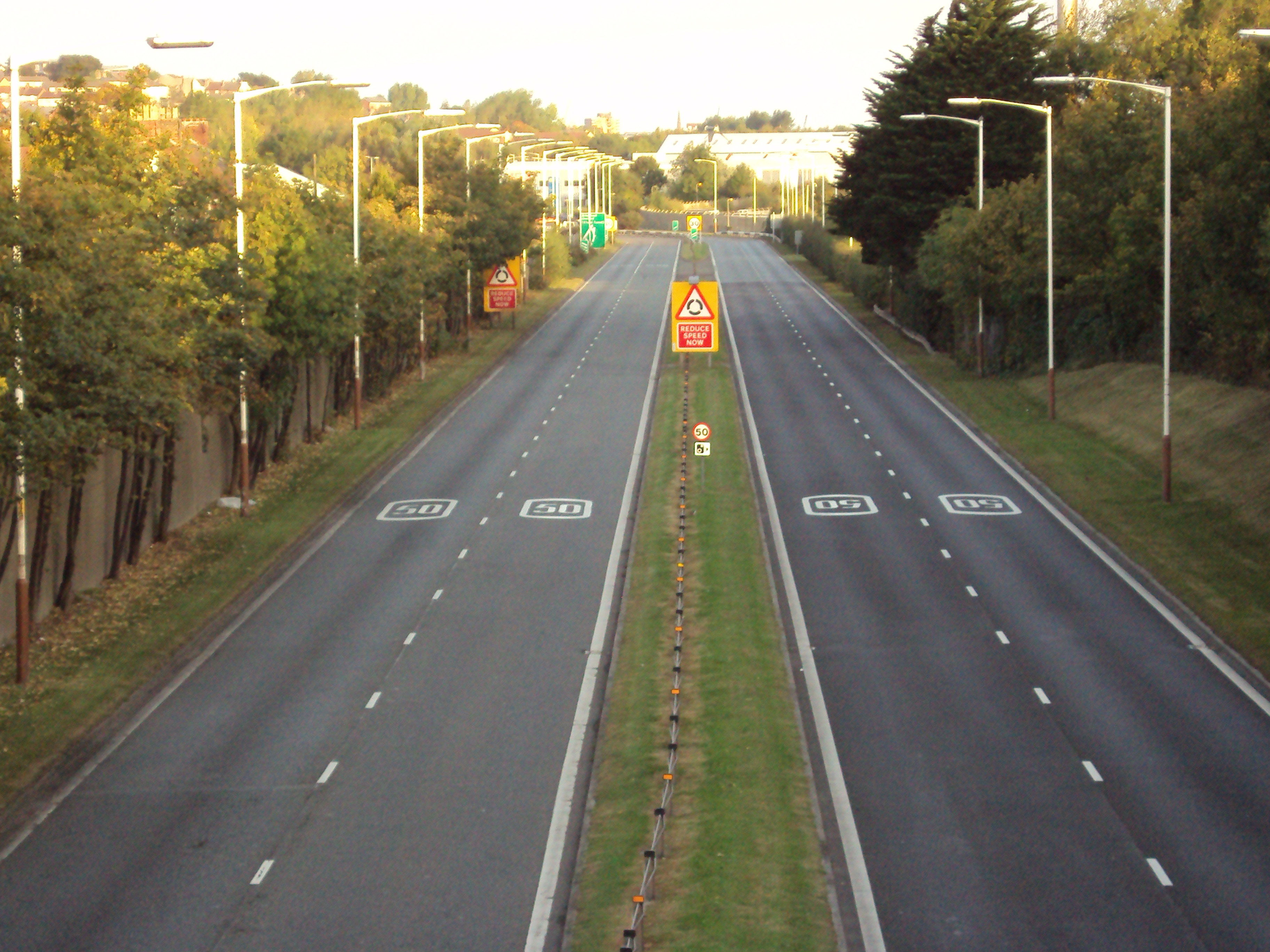 The A41 Rock Ferry by-pass as seen from the bridge on Rock Lane East, Rock Ferry, Birkenhead, Wirral, Merseyside, England.